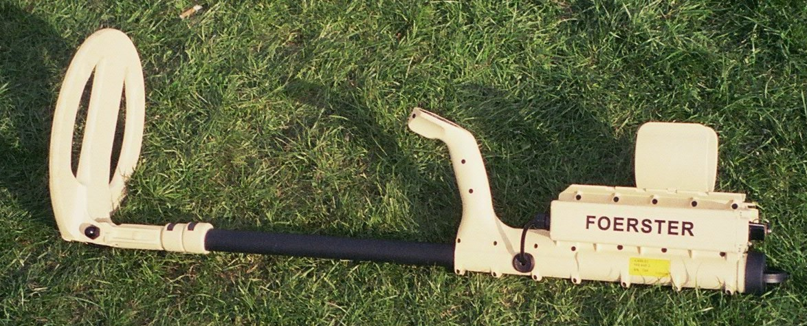 Nation/Defense days, Esplanade des Invalides, Paris, France, September 24-25, 2005